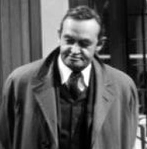 Barry Fitzgerald in And Then There Were None (1945) - cropped screenshot